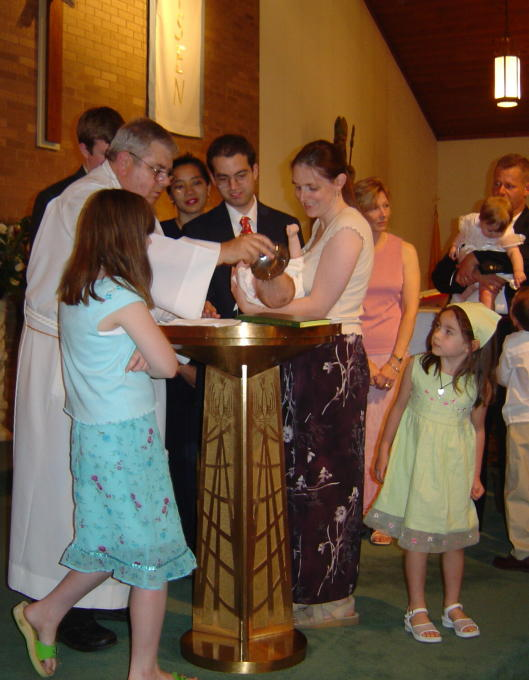 Roman Catholic Infant Baptism in the United States. This photograph demonstrates a method of infant baptism whereby the child is held over a baptismal font and a priest or deacon pours Holy Water onto the child's head while pronouncing the words, "I baptize you in the name of the Father, and of the Son, and of the Holy Spirit." This picture was taken at St. Patrick Catholic Church in Spotsylvania County, Virginia on May 1, 2004 with a Sony Cybershot digital camera.